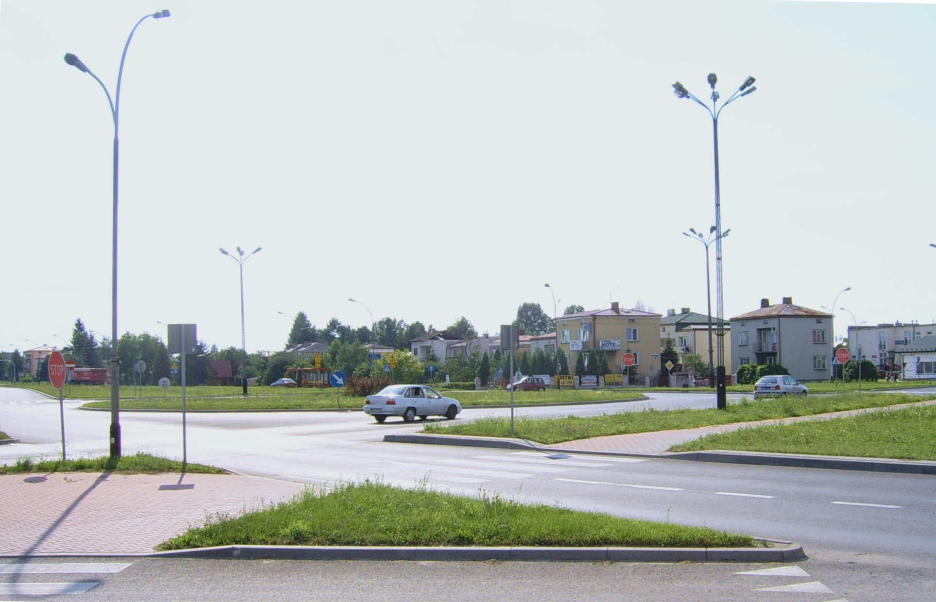 "Independent Self-governing Trade Union 'Solidarity'" roundabout in Zamość, Poland